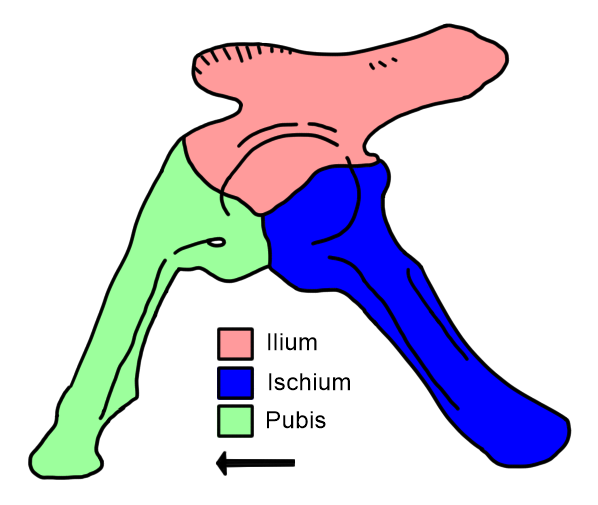 A diagram of the left pelvis (hip) of Prestosuchus chiniquensis. Mainly based on the right pelvis of specimen UFRGS-PV-0629-T. Arrow indicates anterior direction.